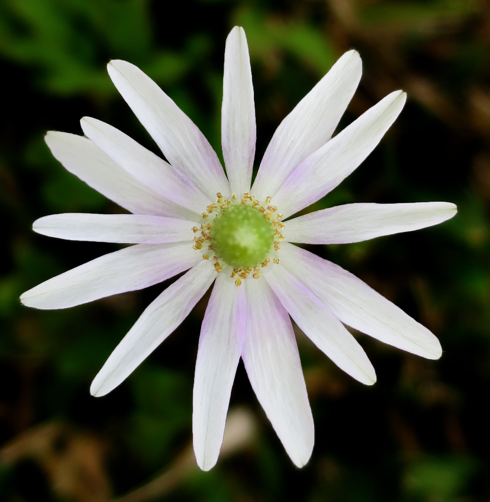 Found in Pasadena, Texas